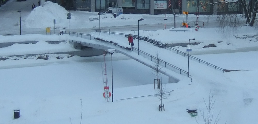 Thulebron, a bridge across Selångersån river in central Sundsvall, Sweden, viewed from north